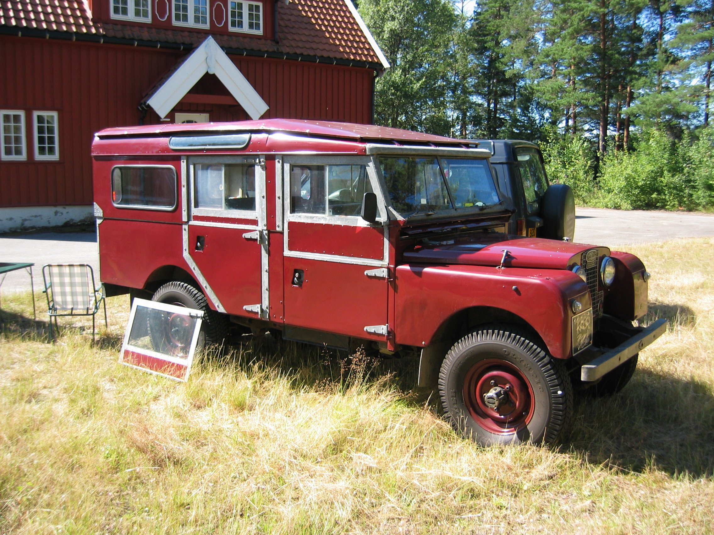 Land Rover Series I 107" Station Wagon in Evje, Norway on the Norwegian Land Rover Club's 30th anniversary meet on 2005-08-02. The plaque in the vehicle window states that the vehicle was sold from the LR factory to the British Transport Comission, British Railways' purchasing agency. It was sprayed red and spent much of it's working life on the North Wales Railway. Camera: Canon Powershot S45